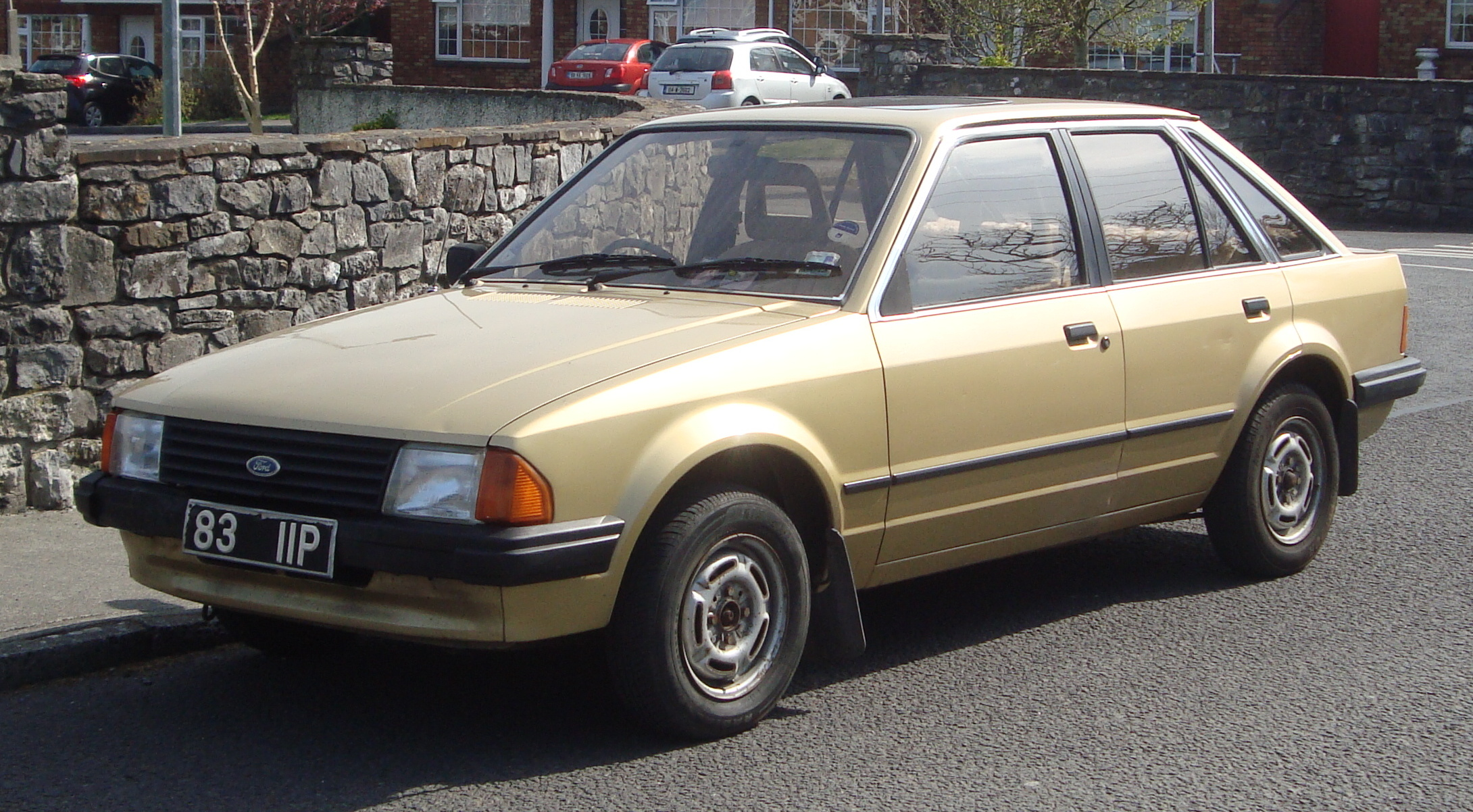 I spent 3 days in Ireland last month for my Cousins Confirmation and this was the only car of interest I saw. It drove past me about 20 minutes before I took this whilst I was walking to the local supermarket but I couldn't get my camera out in time. I decided to take a shortcut from the supermarket to the house I was staying where happily it had parked up!